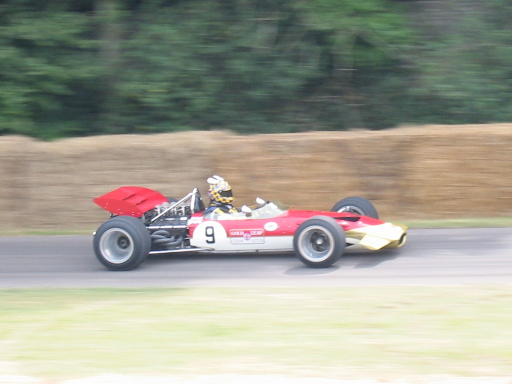 Built 1968, 3 litre V8 Cosworth DFV. This is Hill's 1968 World Title car